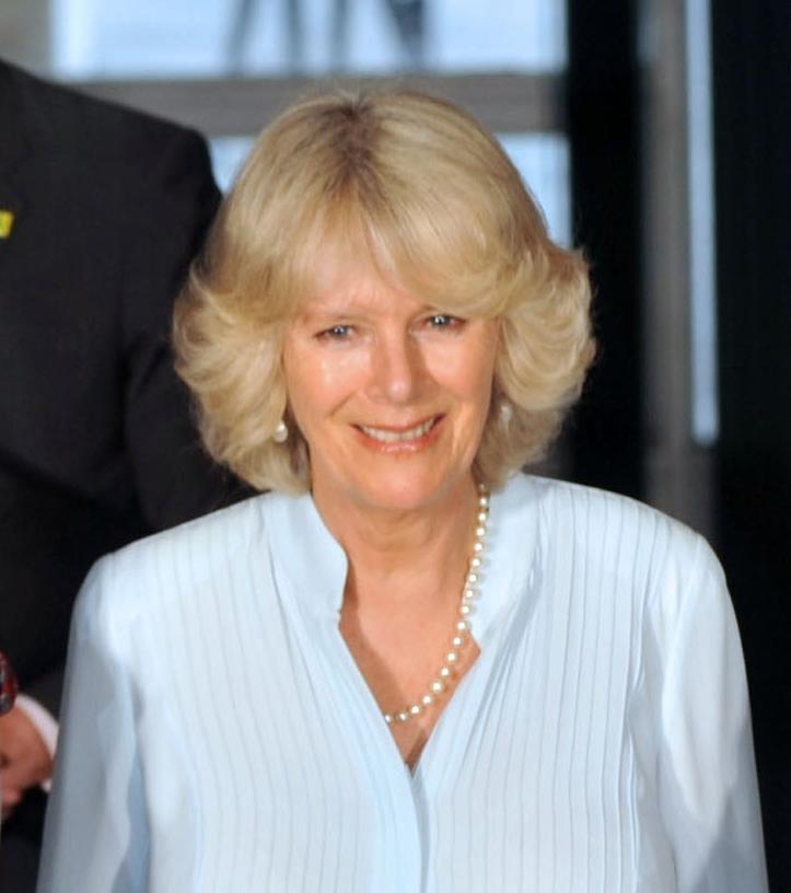 Camilla Parker Bowles during a visit to Brazil